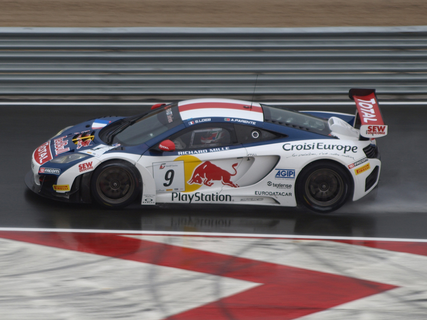 FIA GT Series Circuito de Navarra - McLaren MP4-12c GT3 - Sébastien Loeb Racing